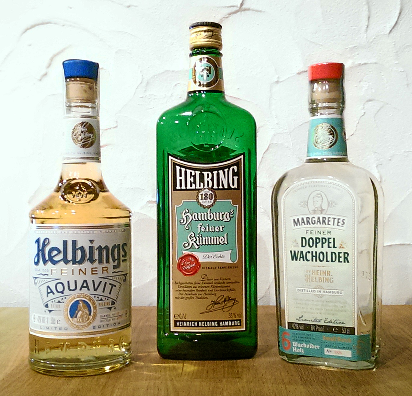 German spirits from Hamburg: Helbing Aquavit, Helbing Kümmel und Margaretes Feiner Doppelwacholder (2020)